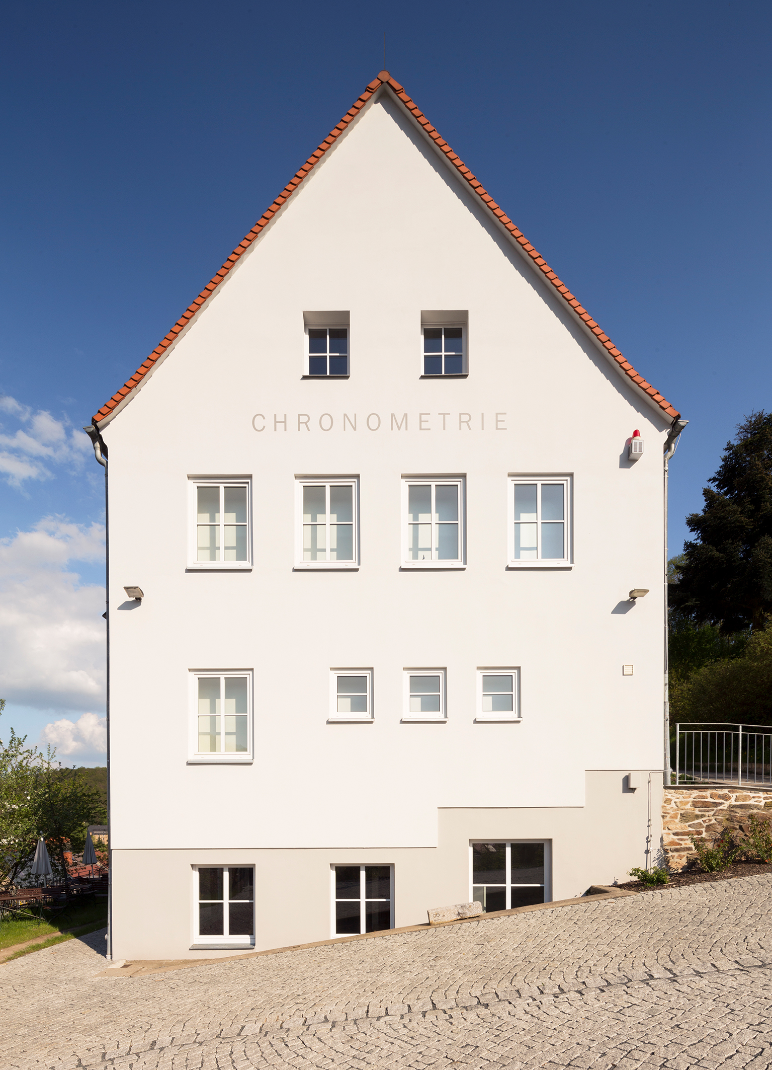 Das Chronometrie Gebäude in Glashütte